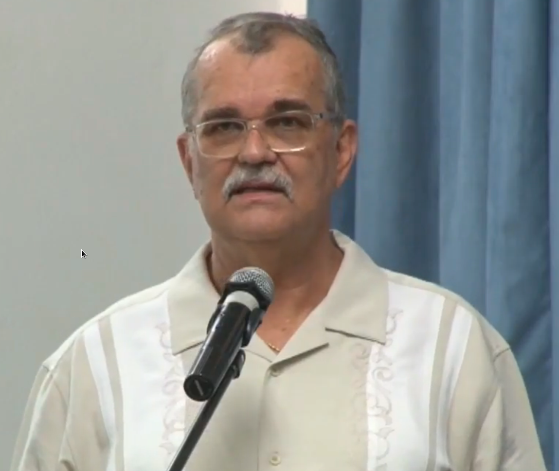 Marten Schalkwijk, Surinamese sociologist and professor. He is one of the founders of the Party for Democracy and Development through Unity.